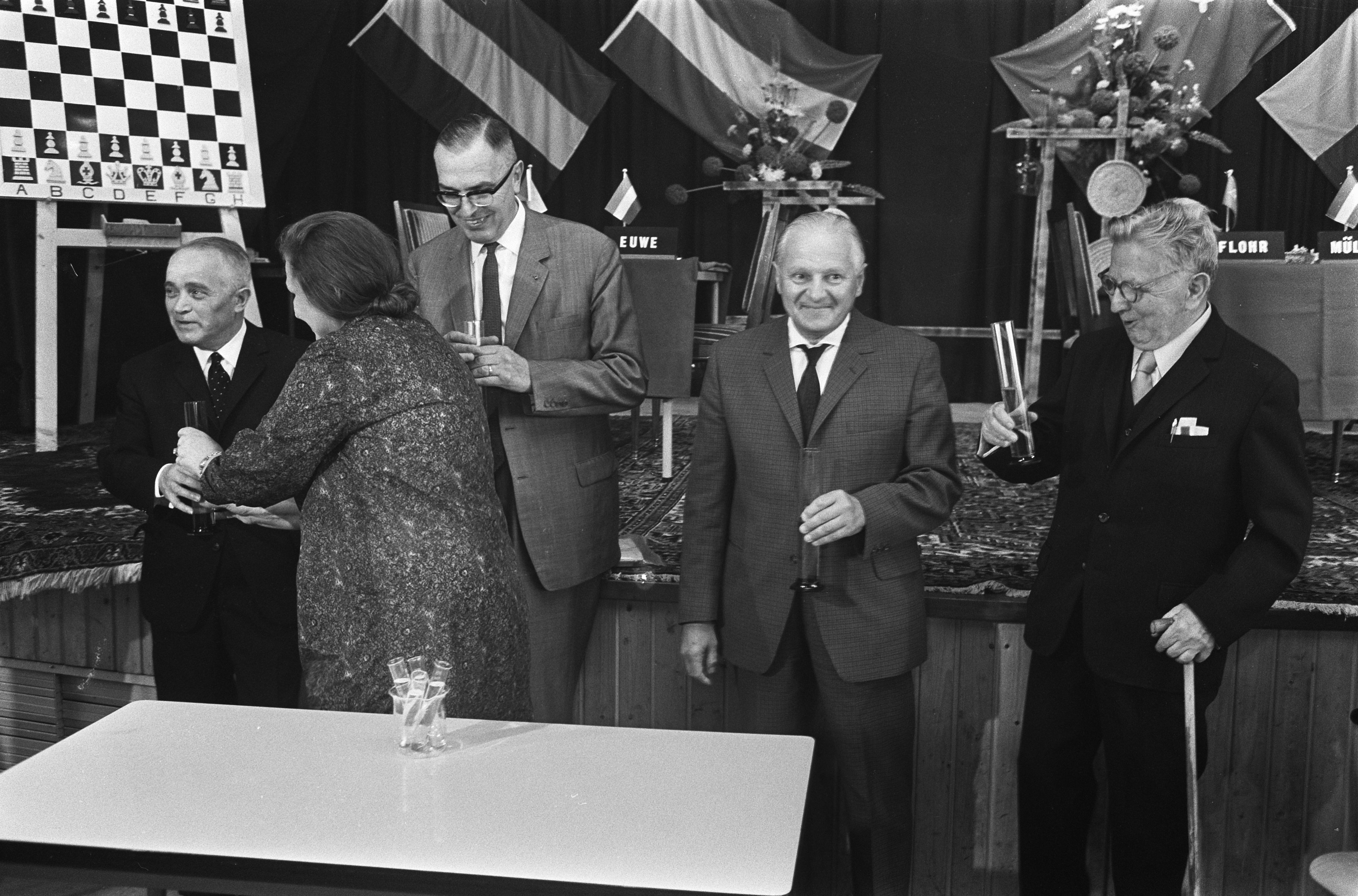 Internationale Schaakvierkamp te Bladel ter herdenking aan de 40 jaar geleden overleden Hongaarse grootmeester Richard Reti. Réti Herdenkingstoernooi: internationale schaakvierkamp. De loting door de weduwe Réti Loting met reageerbuisjes; v.l.n.r. Salomon Flohr, weduwe Reti, Max Euwe (Nederland), Hans Müller (Oostenrijk) en Karel Opocenský (Tsjecho-Slowakije)